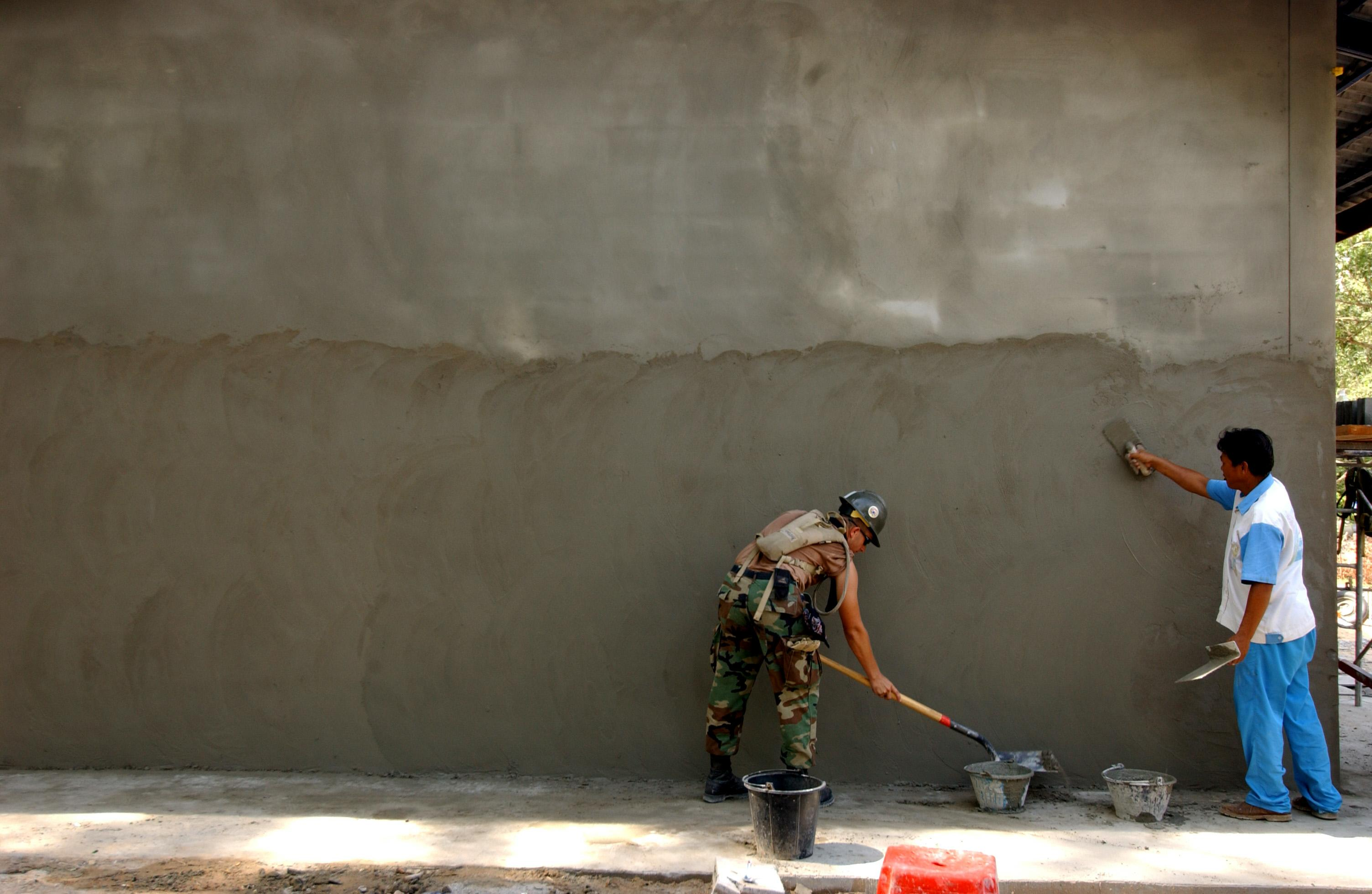 Ban Pho Mun, Thailand (May 11, 2004) - U.S. Navy Seabees assigned to Naval Mobile Construction Battalion Five (NMCB-5), Port Hueneme, Calif. and a Thai Ice Cream man cement a wall to a school in Ban Pho Mun, Thailand. This sight is one of six construction sights being built for the Thai community as part of Cobra Gold 2004. Cobra Gold 2004 is a joint-combined U.S.-Thai military exercise designed to ensure regional peace through the U.S. Pacific Command’s strategy of cooperative engagement. The exercise includes land and air, combined naval, amphibious and special operations as well as combined U.S.-Thai medical civil affairs projects throughout the Kingdom. U.S. Air Force photo by Staff Sgt. JoAnn S. Makinano (RELEASED)